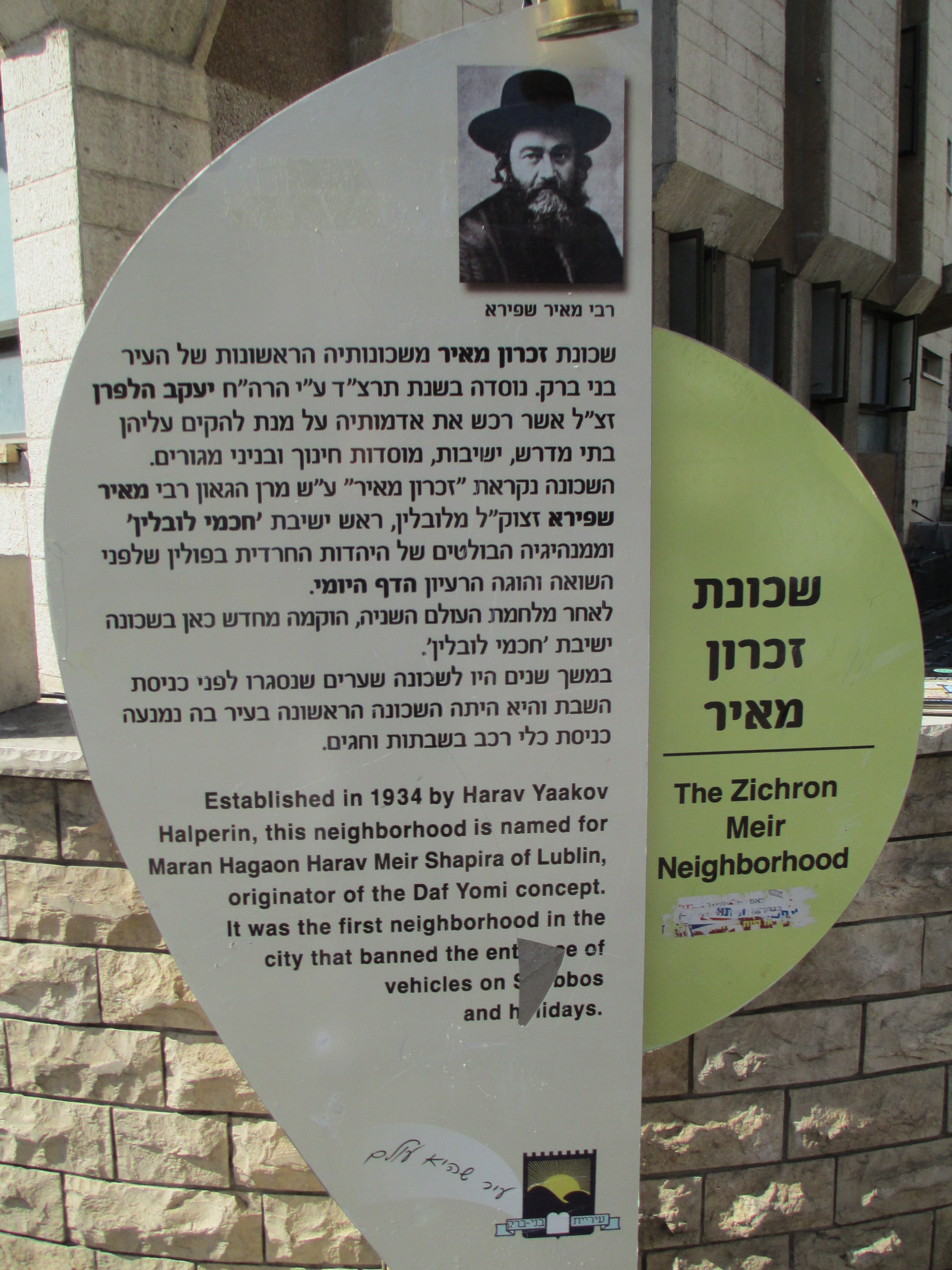 memorial plaque in zichron meir neighborhood in bnei brak, israel לוחית זיכרון בכניסה לשכונת זכרון מאיר ברח' אור החיים בבני ברק